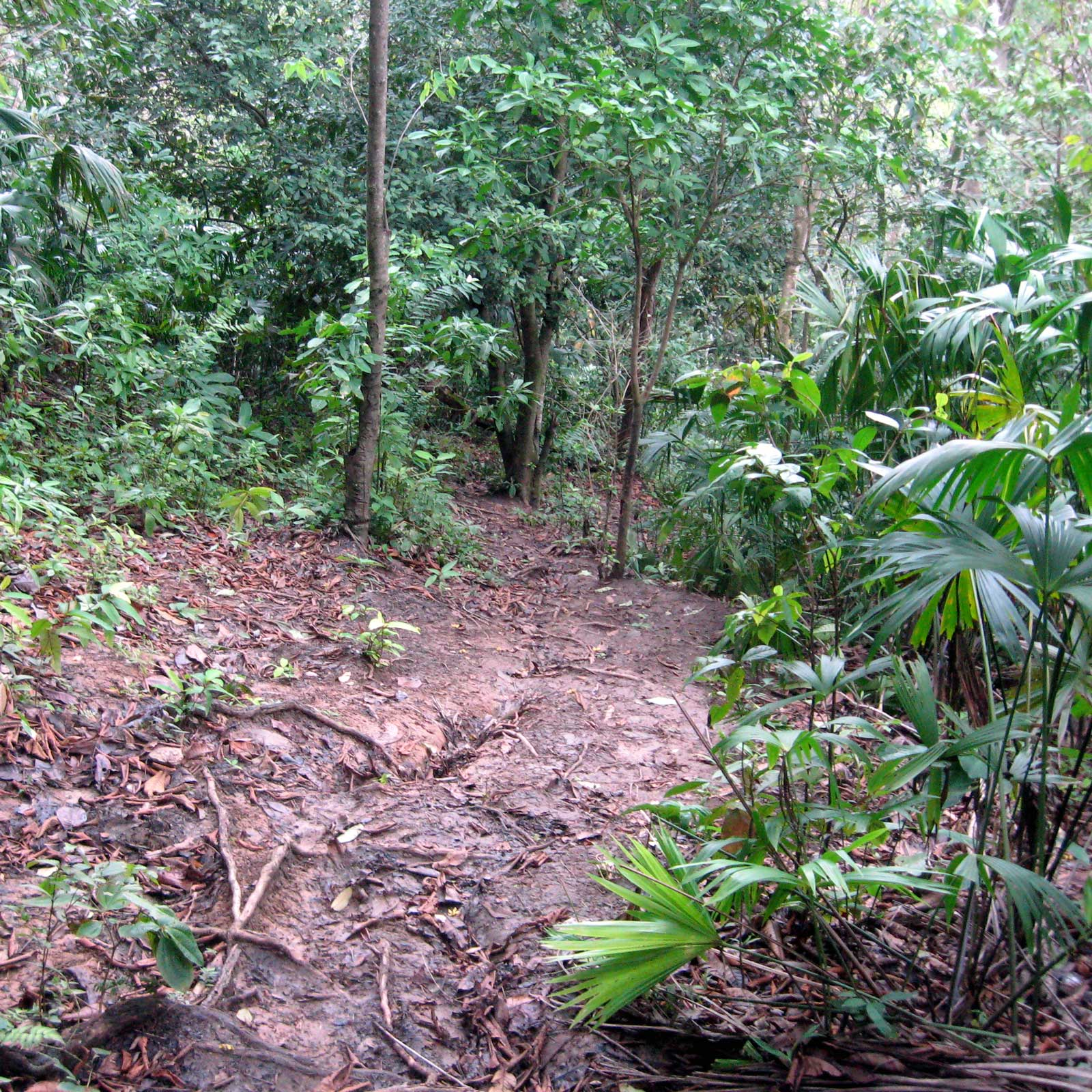 On the Colombian side near Panamanian border.